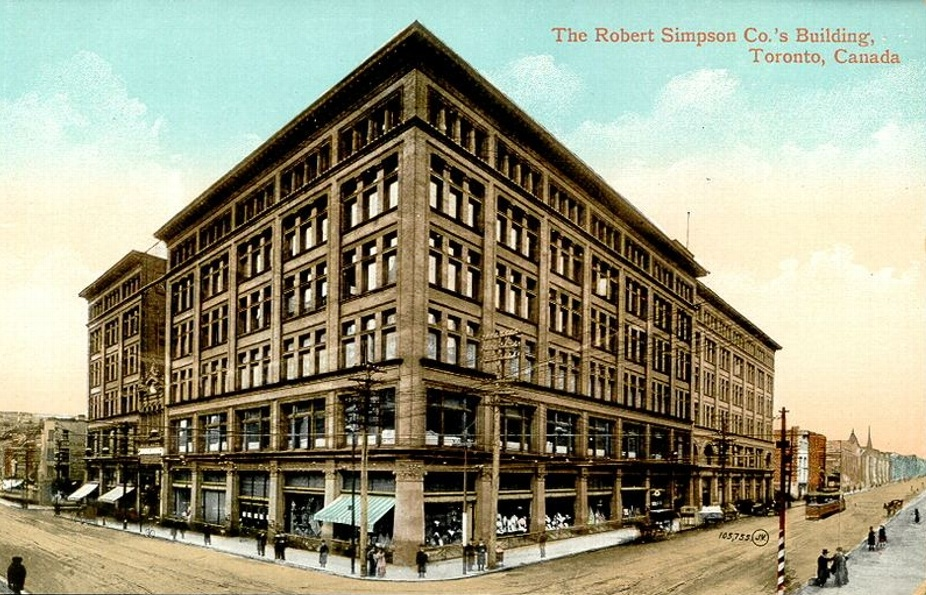 Postcard of the Robert Simpson Co. department store, Toronto, Canada. The store would later expand to encompass virtually the entire city block bounded by Queen, Yonge, Richmond and Bay Streets, and is now a Bay department store.